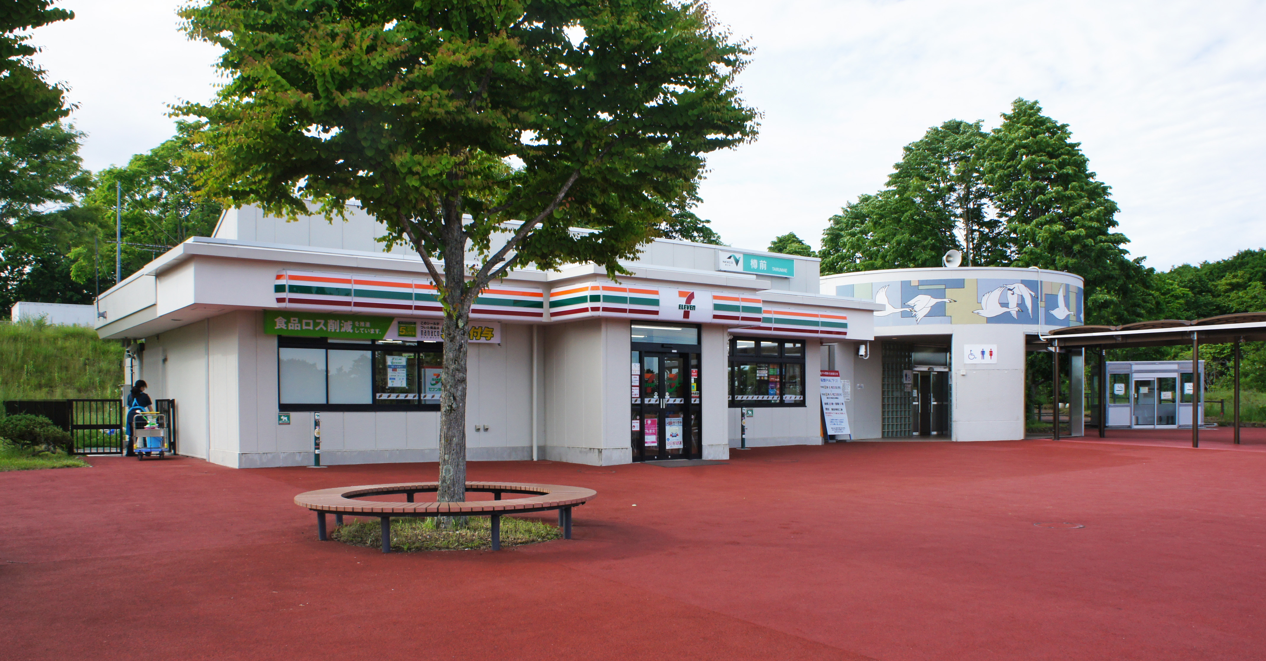 Do-O Expressway Tarumae SA (Outbound Line) Sony NEX-3 + E 18-55mm F3.5-5.6 OSS